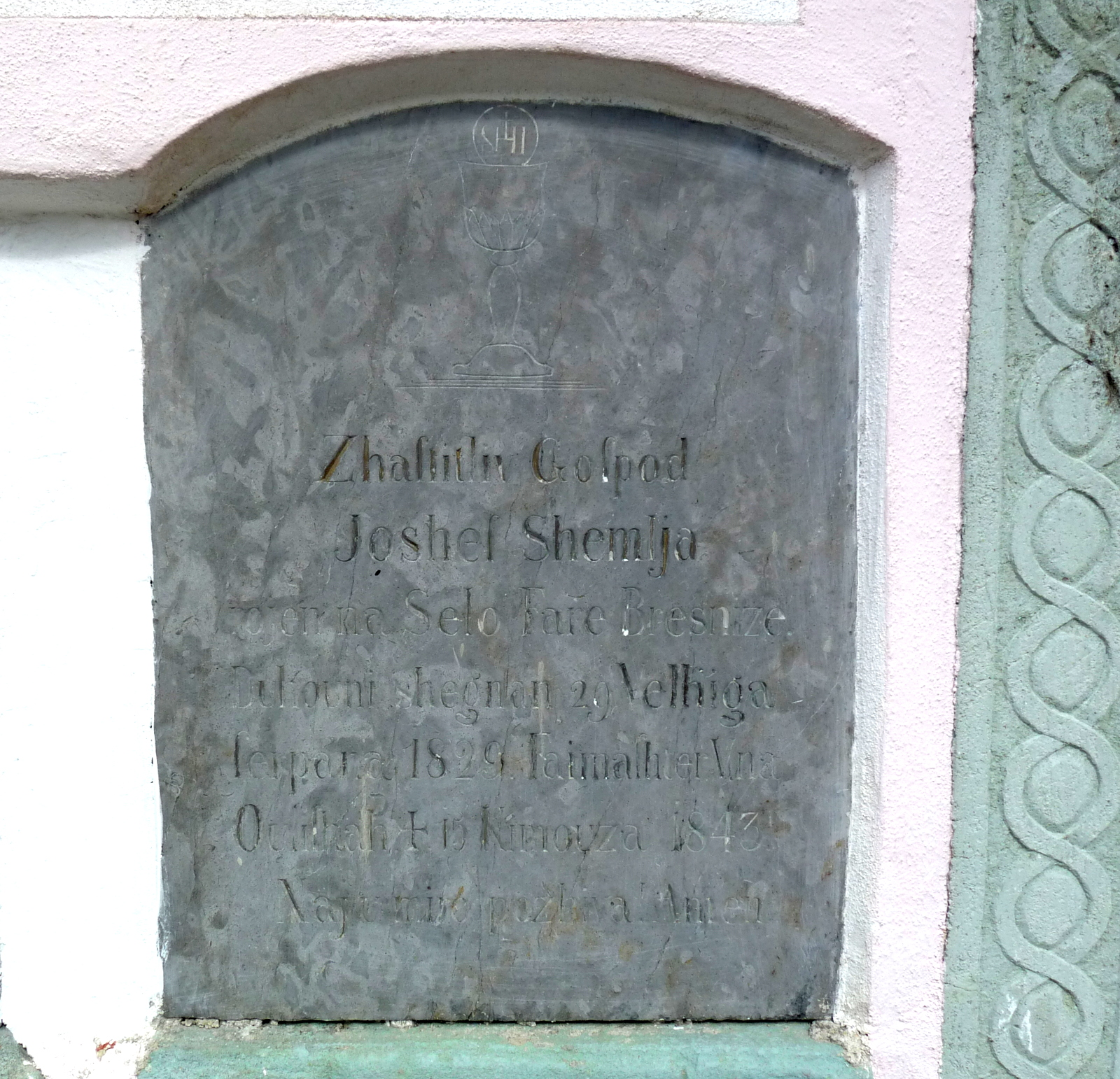 Plošča pisatelju Jožefu Žemlji na cerkvi na Ovsišah